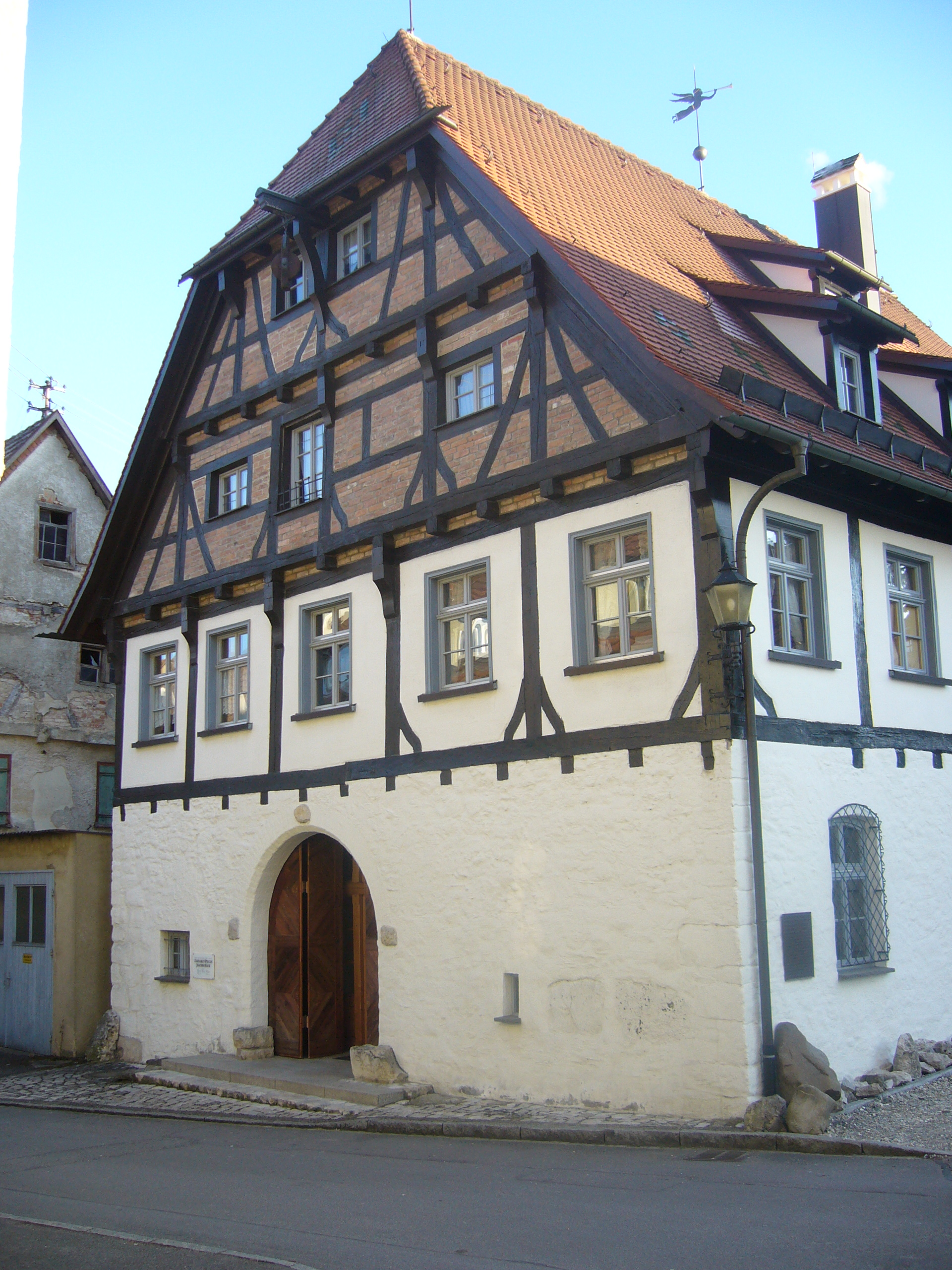 timbered house in Munderkingen, Germany (15th century ?)